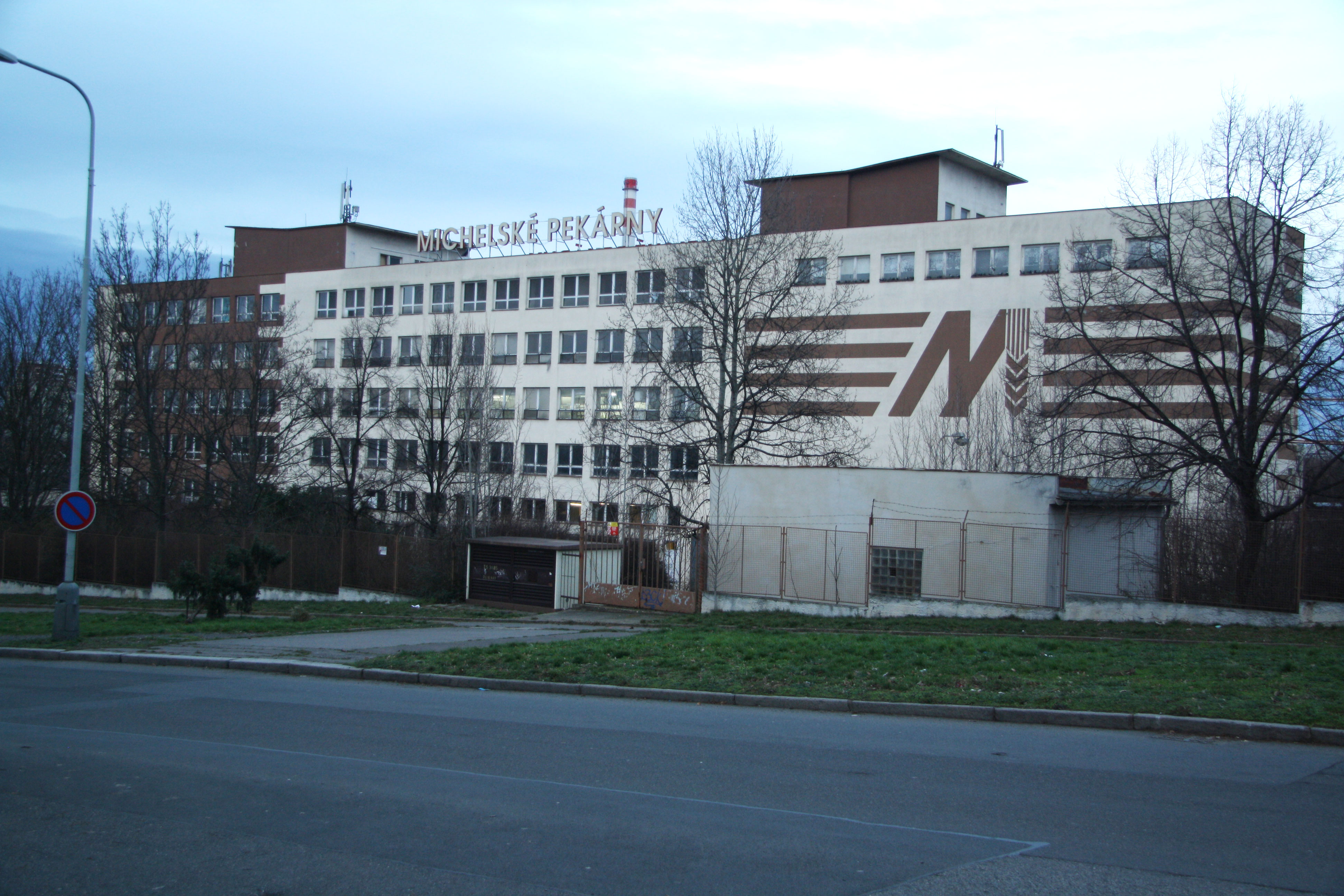 Overview of Michelské pekárny in Praha-Michle, Praha.